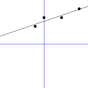 A plot of the least squares linear regression example on the page "linear least squares" in Wikipedia.